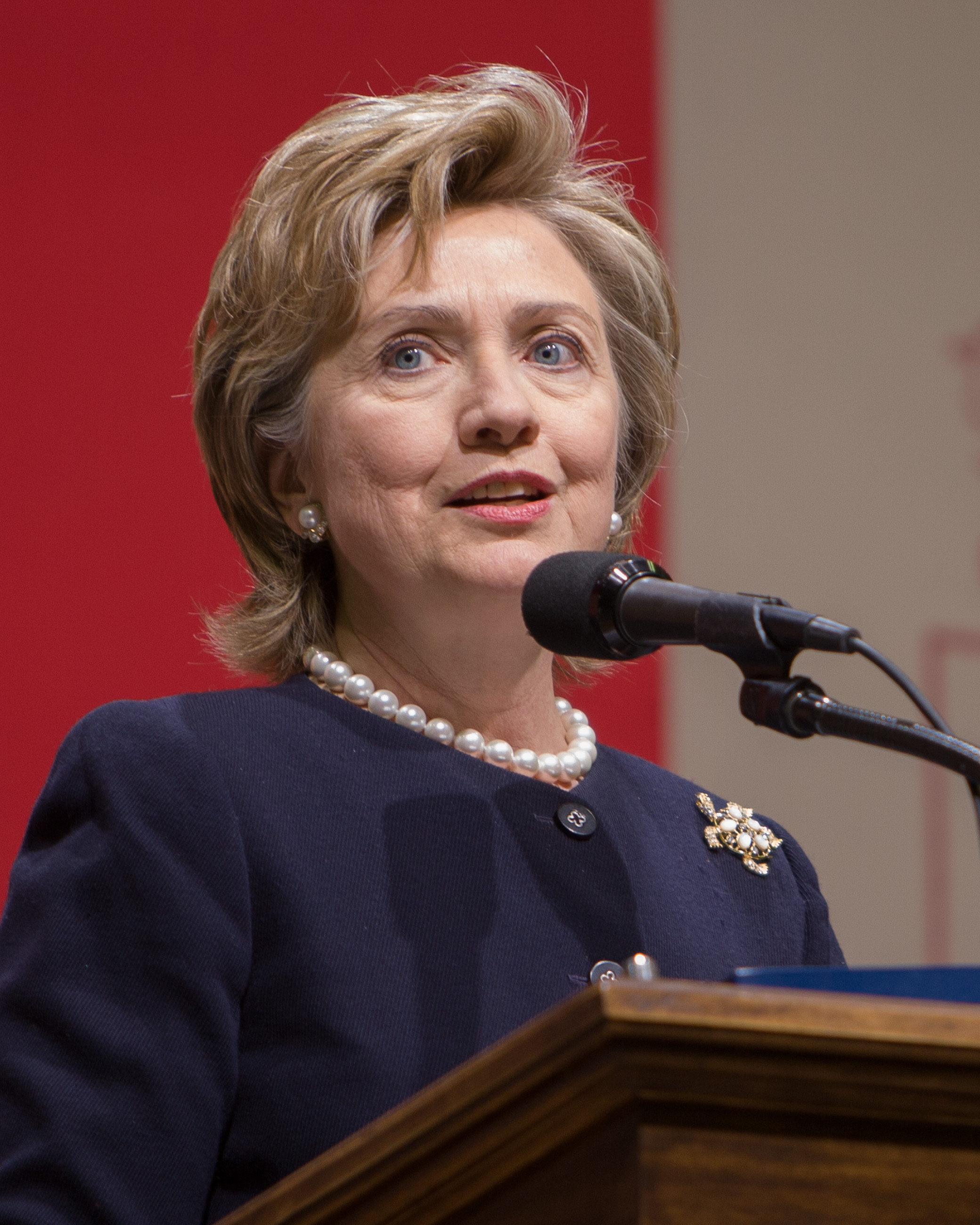 Hillary Rodham Clinton, Senator from New York, in 2006.